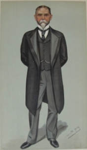 Caricature of John Hay, United States Ambassador to the United Kingdom. Caption read "USA".